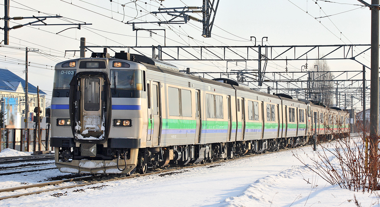 JR Hokkaido 201 series DMU + 731 series EMU ( 962M / D-103 + G-? F, Shiroishi Stn. - Naebo Stn. )